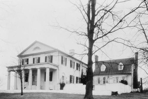 John Marshall House (Fauquier County, Virginia) (cropped)